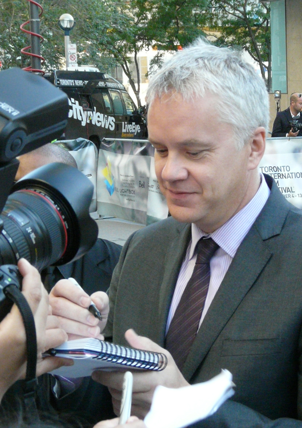 Actor Tim Robbins arrives at "The Lucky Ones" premiere during the 2008 Toronto International Film Festival held at the Roy Thomson Hall on September 10, 2008 in Toronto, Canada Check out More great pics and Video at